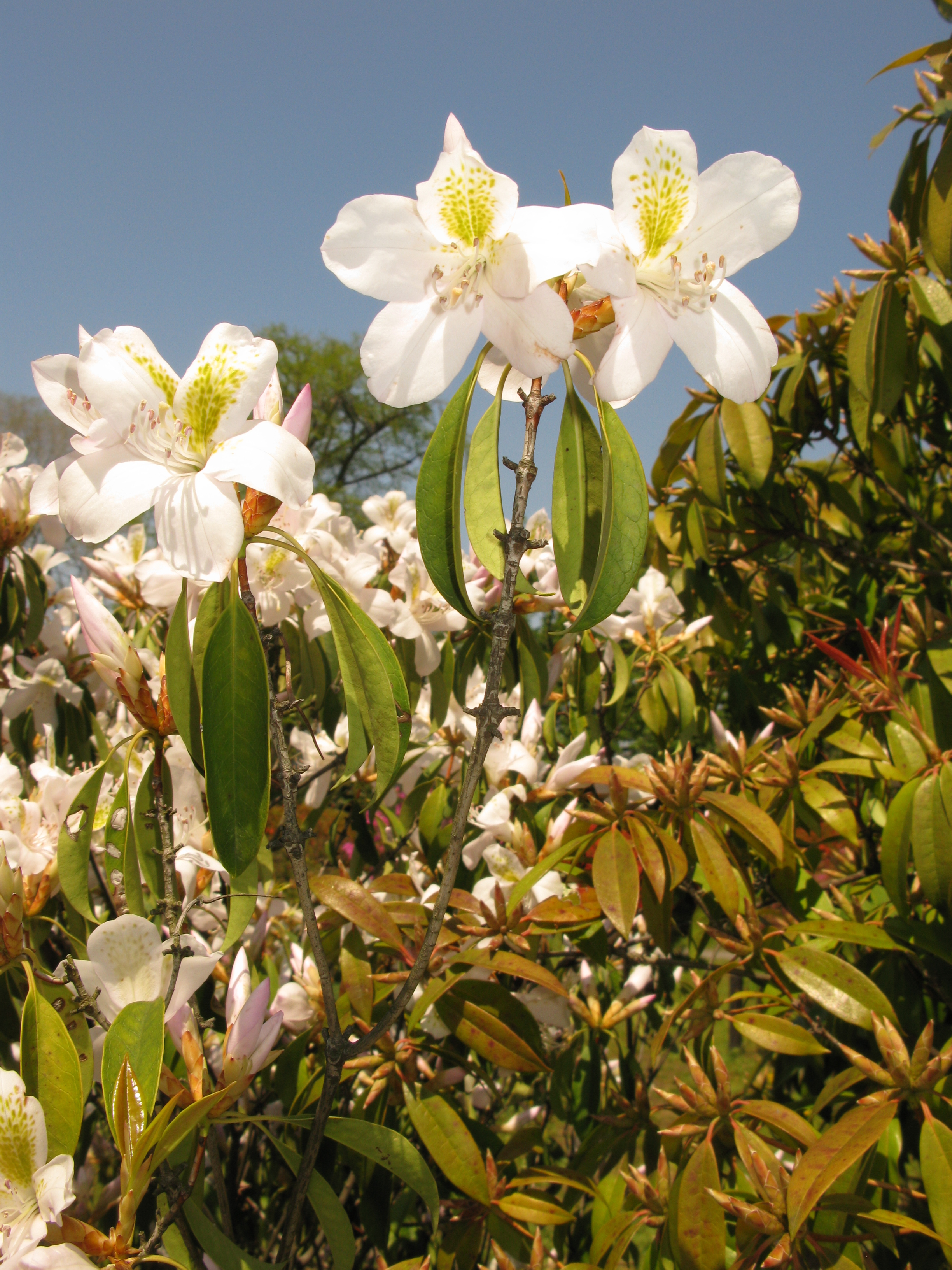 Rhododendron latoucheae var. amamiense, Koishikawa, Botanical Gardens, the University of Tokyo, Japan